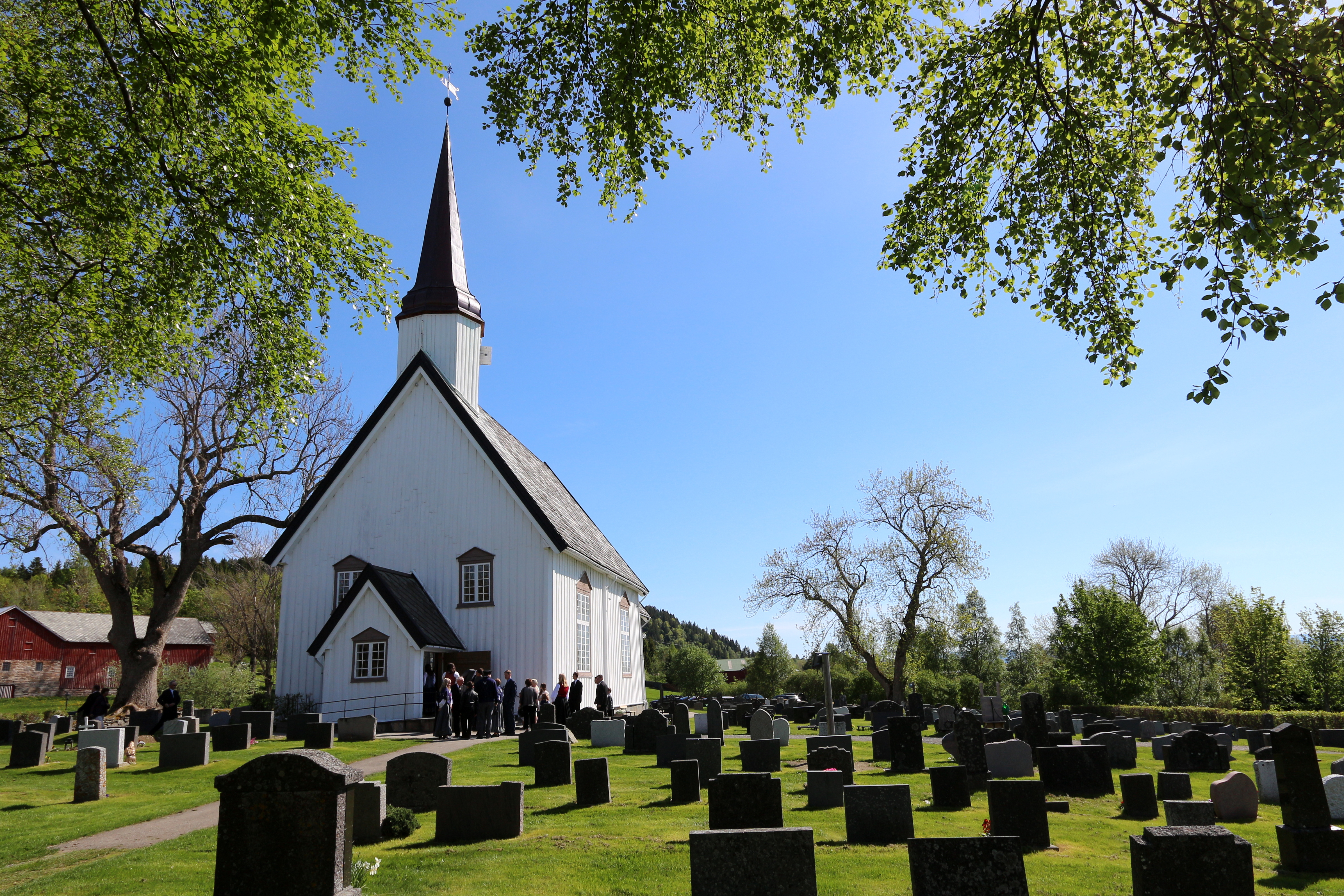 Leksvik church seen from south west.